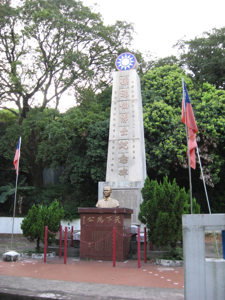 Memorial of Dr. Sun Yat-sen